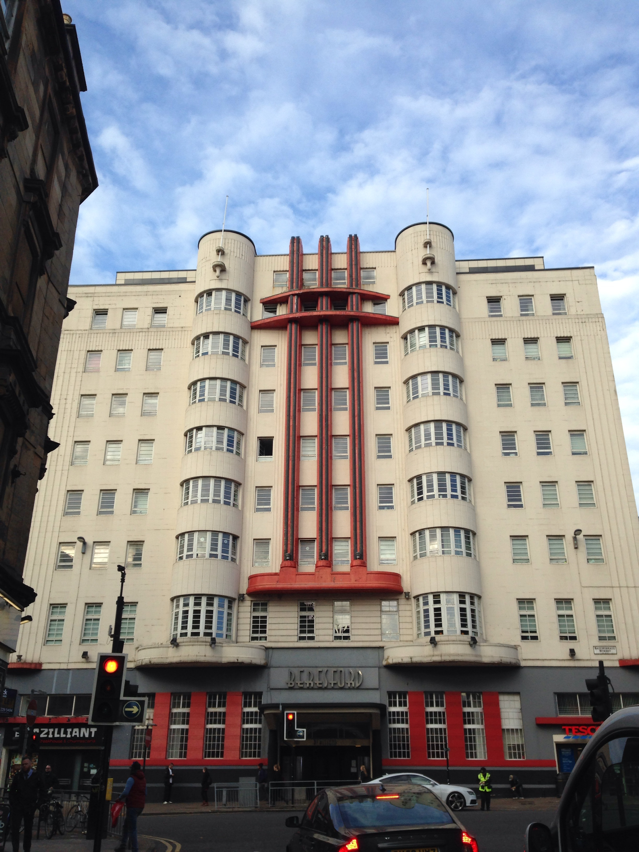 The CategoyB listedLB33195 at 460, 468 SAUCHIEHALL STREET, BAIRD HALL OF RESIDENCE in Glasgow.